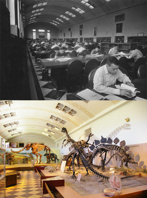 Upper photograph: Circa 1950, a reading room in the George Thomas Building's Library, University of Utah, in Salt Lake City. Lower photograph: The same room in 2009 (and since 1969), when this room was used as a fossil mounts hall for the Utah Museum of Natural History. The latter moved to a completely new place in 2011 and changed name to Natural History Museum of Utah. The George Thomas Building is now being reorganised in order to become a scientific research center.